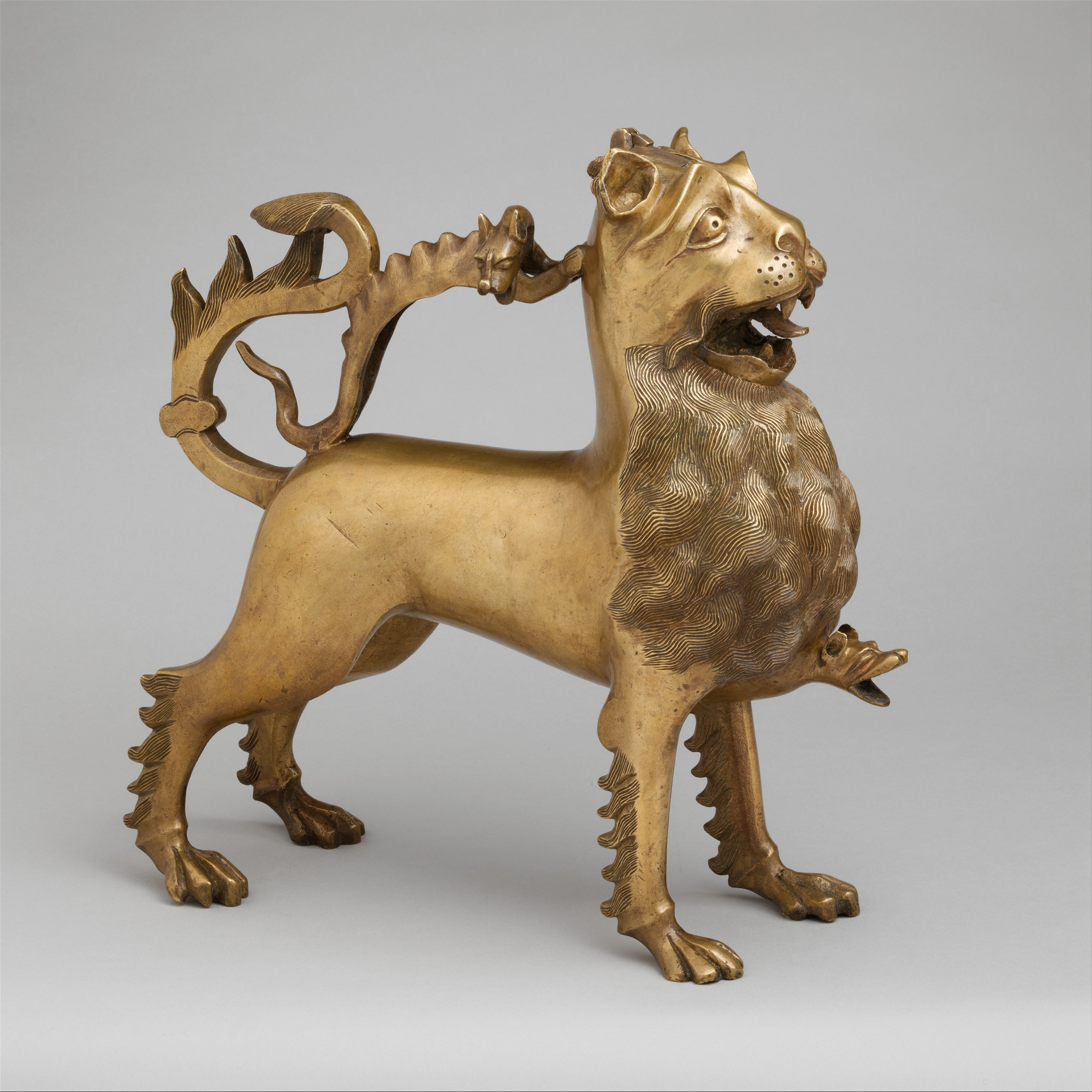 German; Aquamanile; Metalwork-Copper alloy